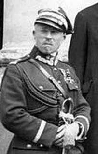 Juliusz Malczewski, Polish General, Minister of Military Affairs of Poland, May 1926